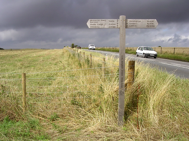 Stonehenge World Heritage Site signpost alongside the A303. In the grid square SW of Stonehenge, this is a recently erected signpost where a by-way crosses the very busy A303 road. This grid square contains a large number of prehistoric burial mounds, including the Normanton Down round barrow cemetery. The low remains of a neolithic long barrow are just visible in the field on the left of the photo.